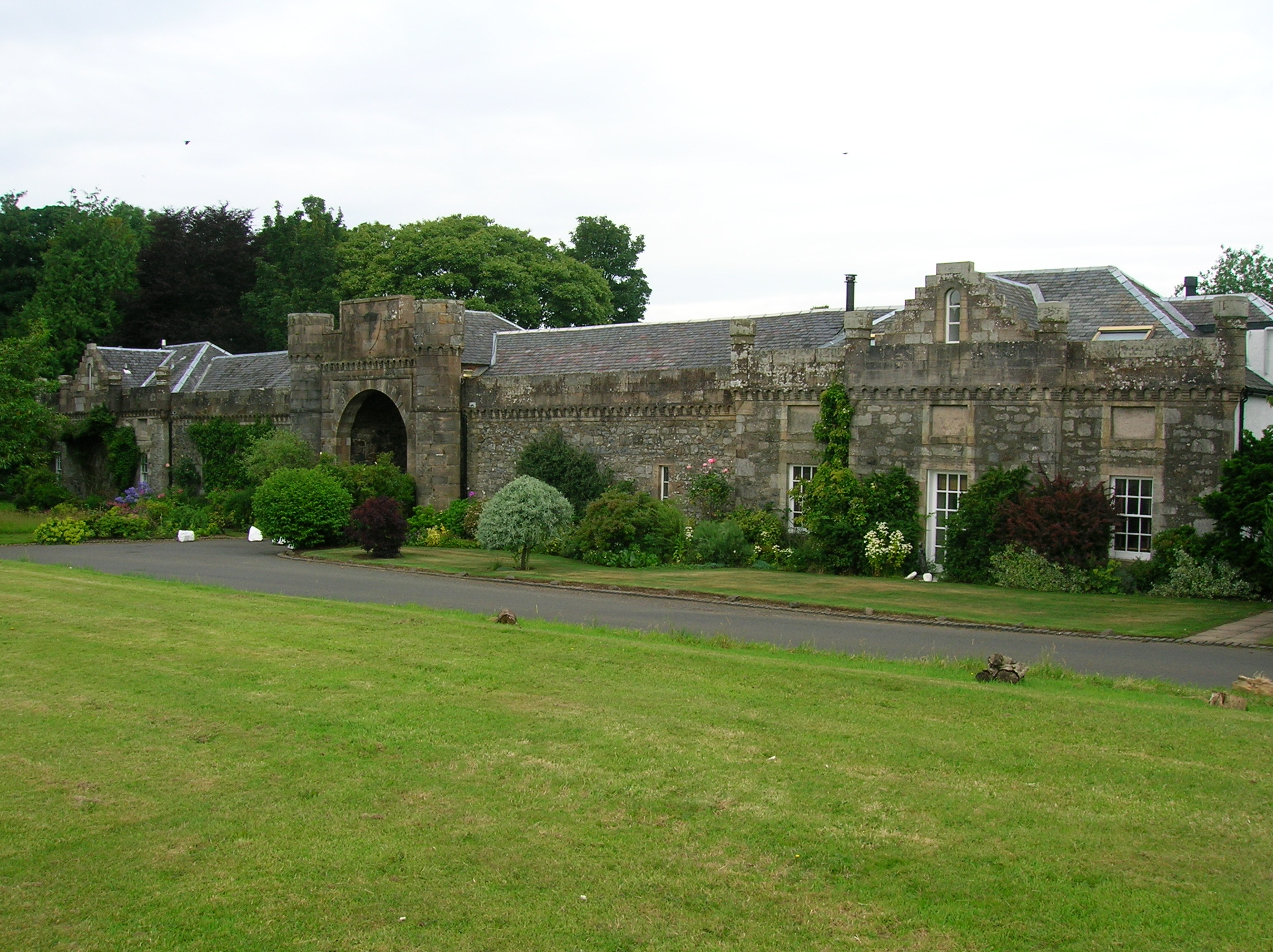 Fullarton stables, Troon, South Ayrshire, Scotland